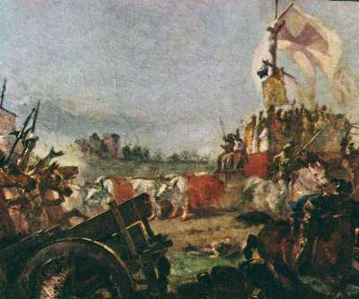 Painted by Amos Cassioli (1832 - 1891). The Carroccio of Legnano